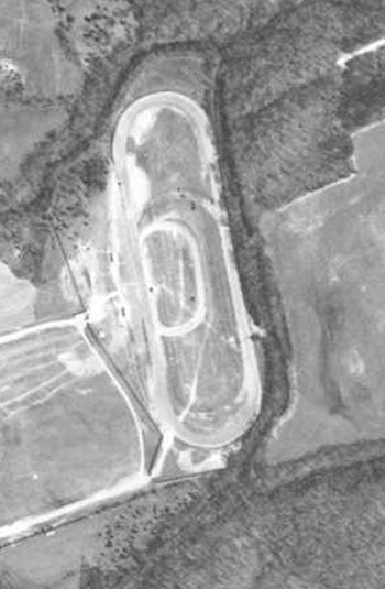 From a 1955 U.S. Government aerial photograph.